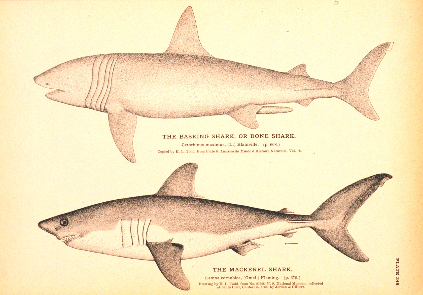 Plate 249. The Basking Shark, or Bone Shark. Cetorhinus maximus (L.), Blainville. The Mackerel Shark. Lamna cornubica, (Gmel.) Fleming.